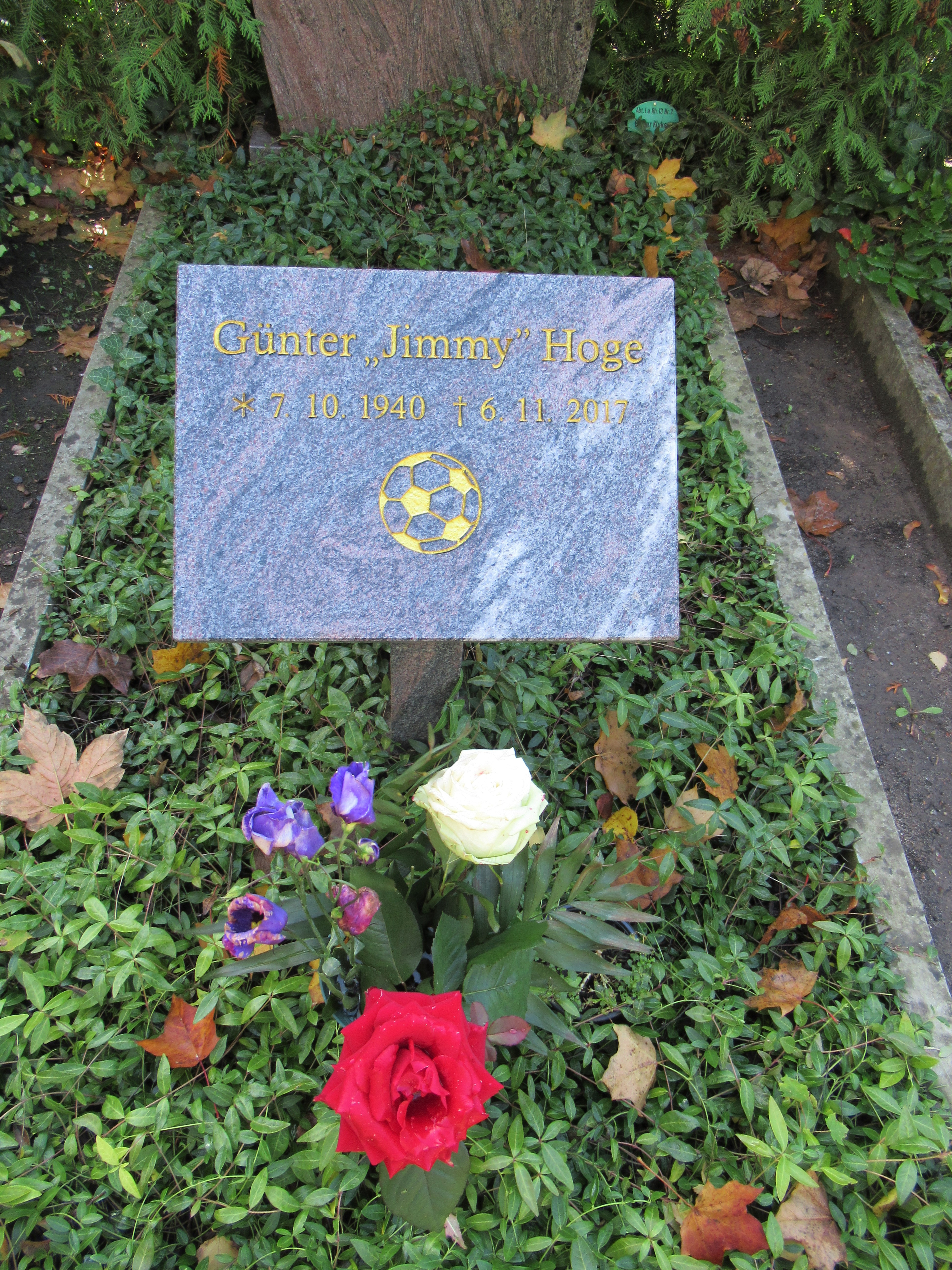 Grave of German soccer player Günter Hoge at Friedhof Kaulsdorf in Berlin-Kaulsdorf